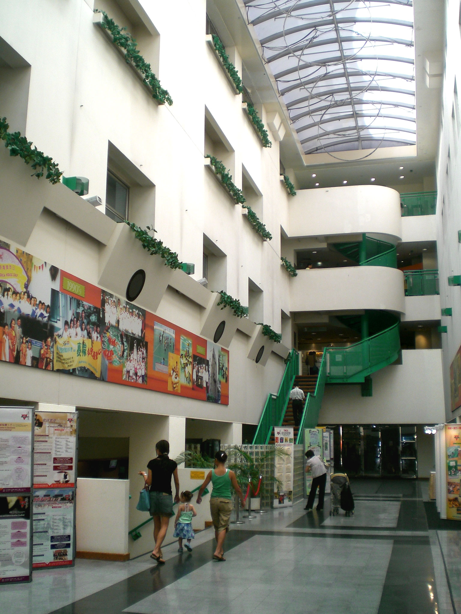 香港基督教青年會賓館